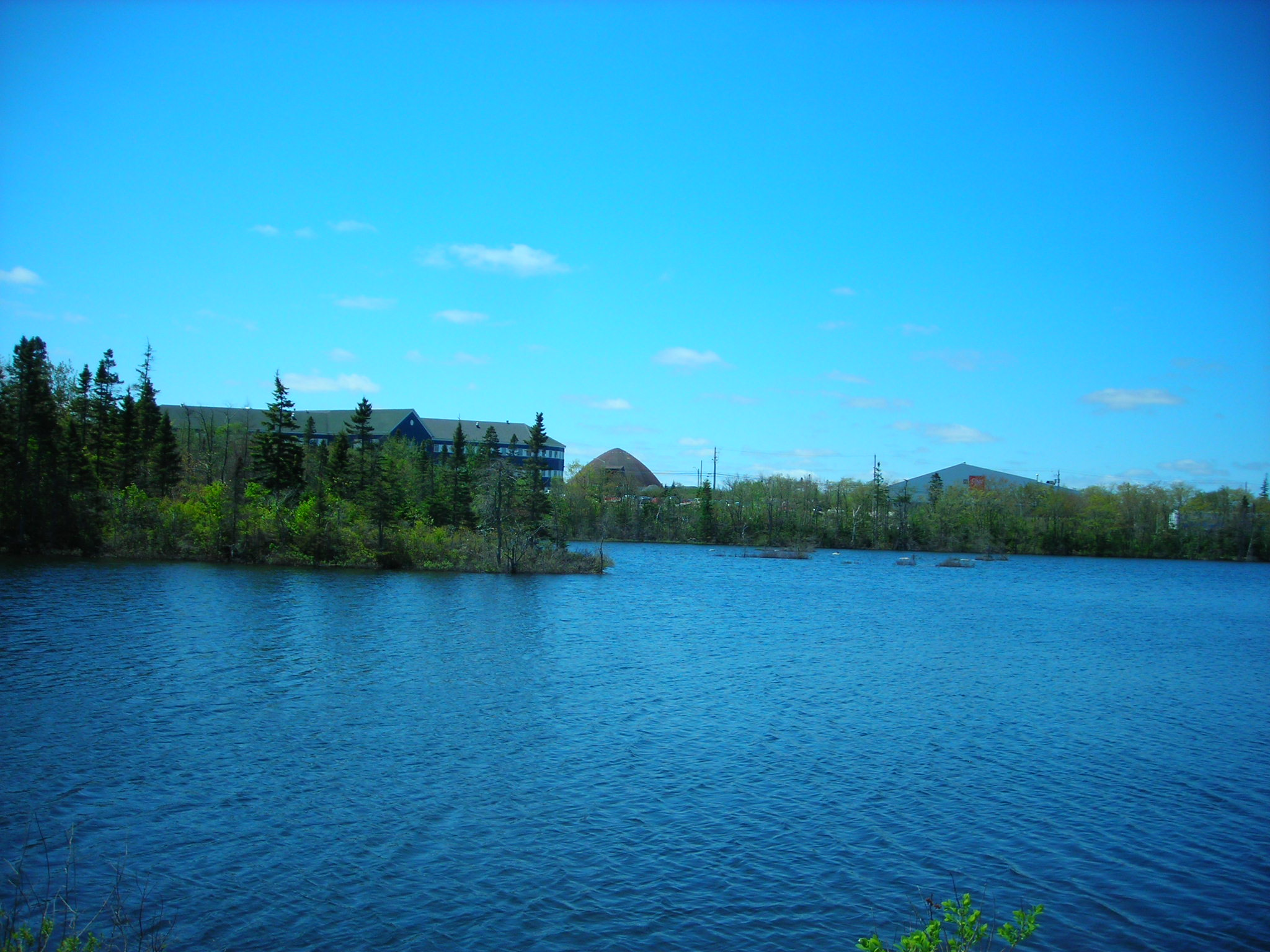 Bayers Lake in the Halifax Regional Municipality in Nova Scotia, Canada. View direction west from the unused tracks of the old Halifax and Southwestern Railway. One can see parts of the nearby industrial facilities.